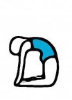 bp22